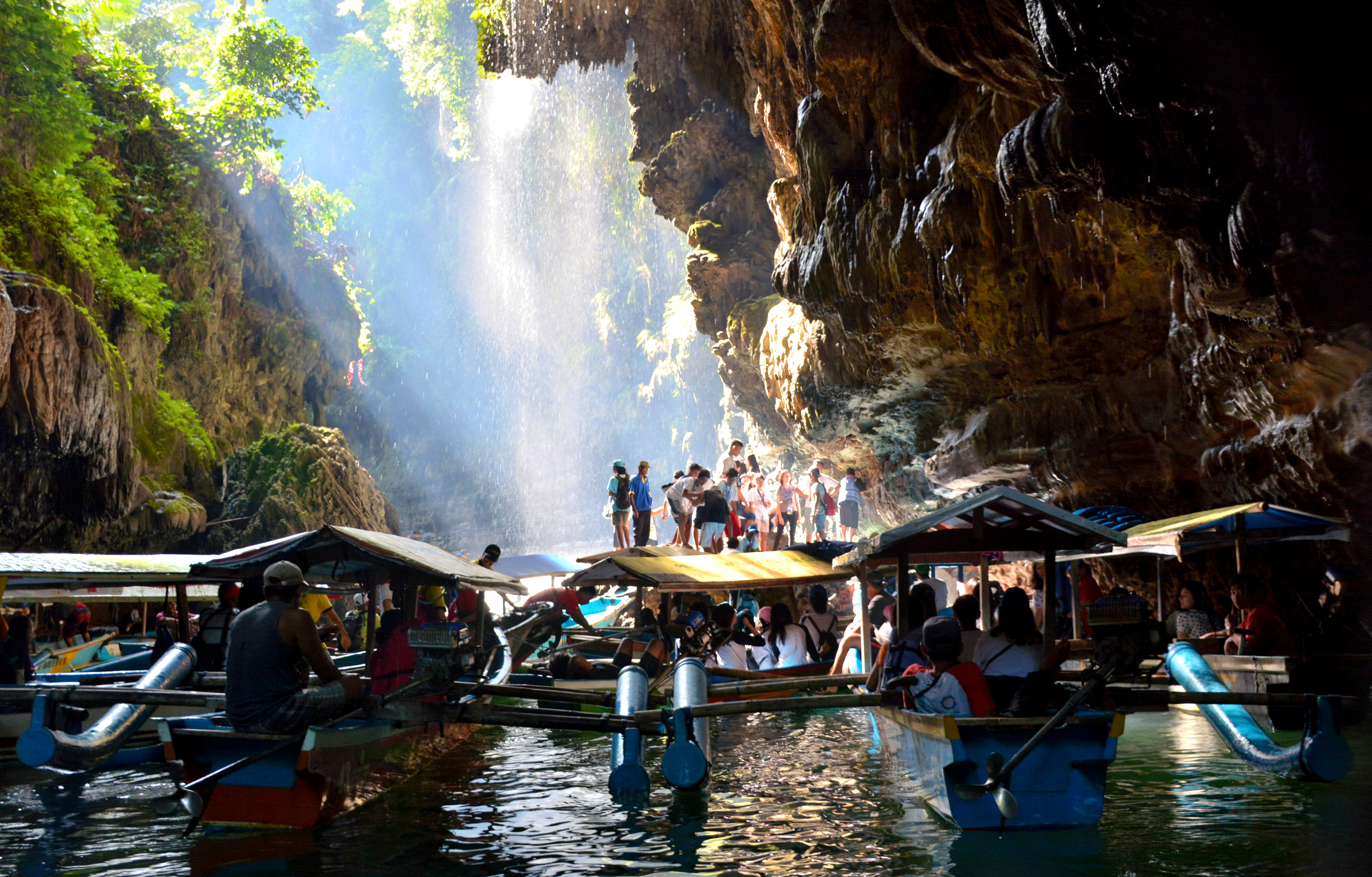 The entrance to Cukang Taneuh (Green Canyon Indonesia)